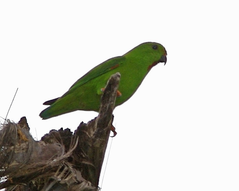 Sulawesi Hanging Parrot (Loriculus stigmatus) in Tangkoko, North Sulawesi, Indonesia on 10 July 2006.